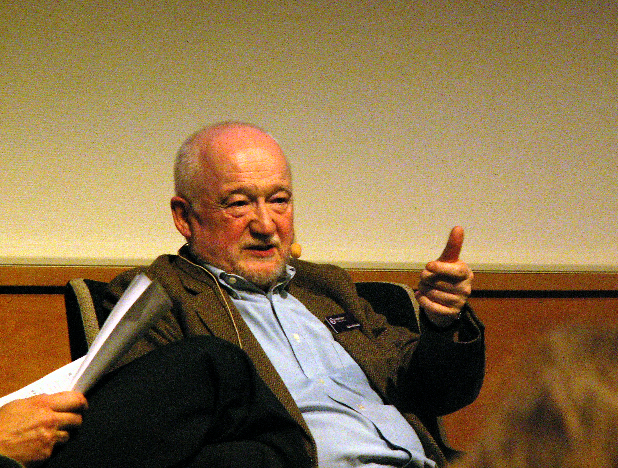 At the Göteborg Book Fair 2015.